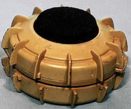 Italian VS-50 copy of TECNOVAR TS/50 antipersonnel blast mine